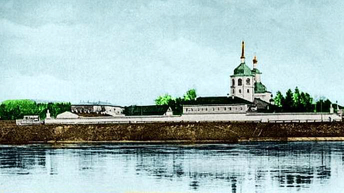 Znamensky Monastery in Irkutsk